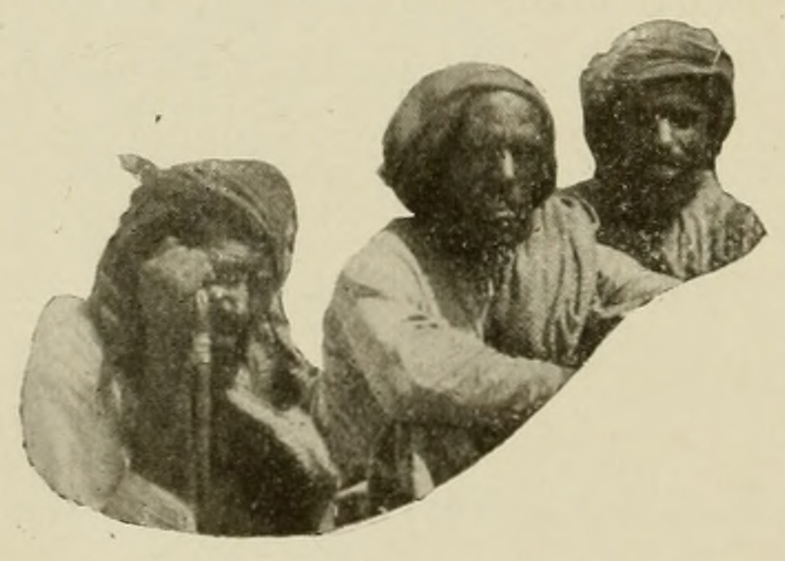 Inhabitants of Abd al Kuri in 1898, from The Natural History of Sokotra and Abd-el-Kuri